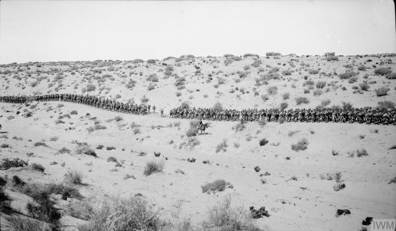 Photographer: British Official War Photographer